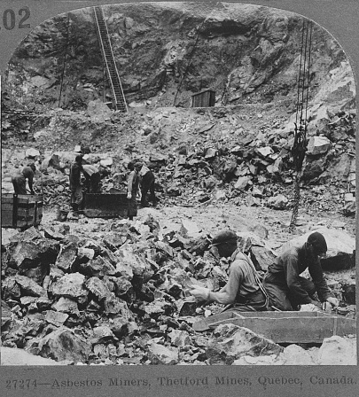 Title: Asbestos miners, Thetford Mines, Quebec, Canada Creator(s): Keystone View Company., Date Created/Published: Meadville, Pa. ; Toronto, Canada : Keystone View Company, c1923 Dec. 31. Medium: 1 photographic print on stereo card : stereograph. Summary: Stereograph shows men working in the mine collecting asbestos. Reproduction Number: LC-USZ62-138987 (b&w film copy neg.) Rights Advisory: No known restrictions on publication. Call Number: LOT 13953, no. 9 [item] [P&P] Repository: Library of Congress Prints and Photographs Division Washington, D.C. 20540 USA